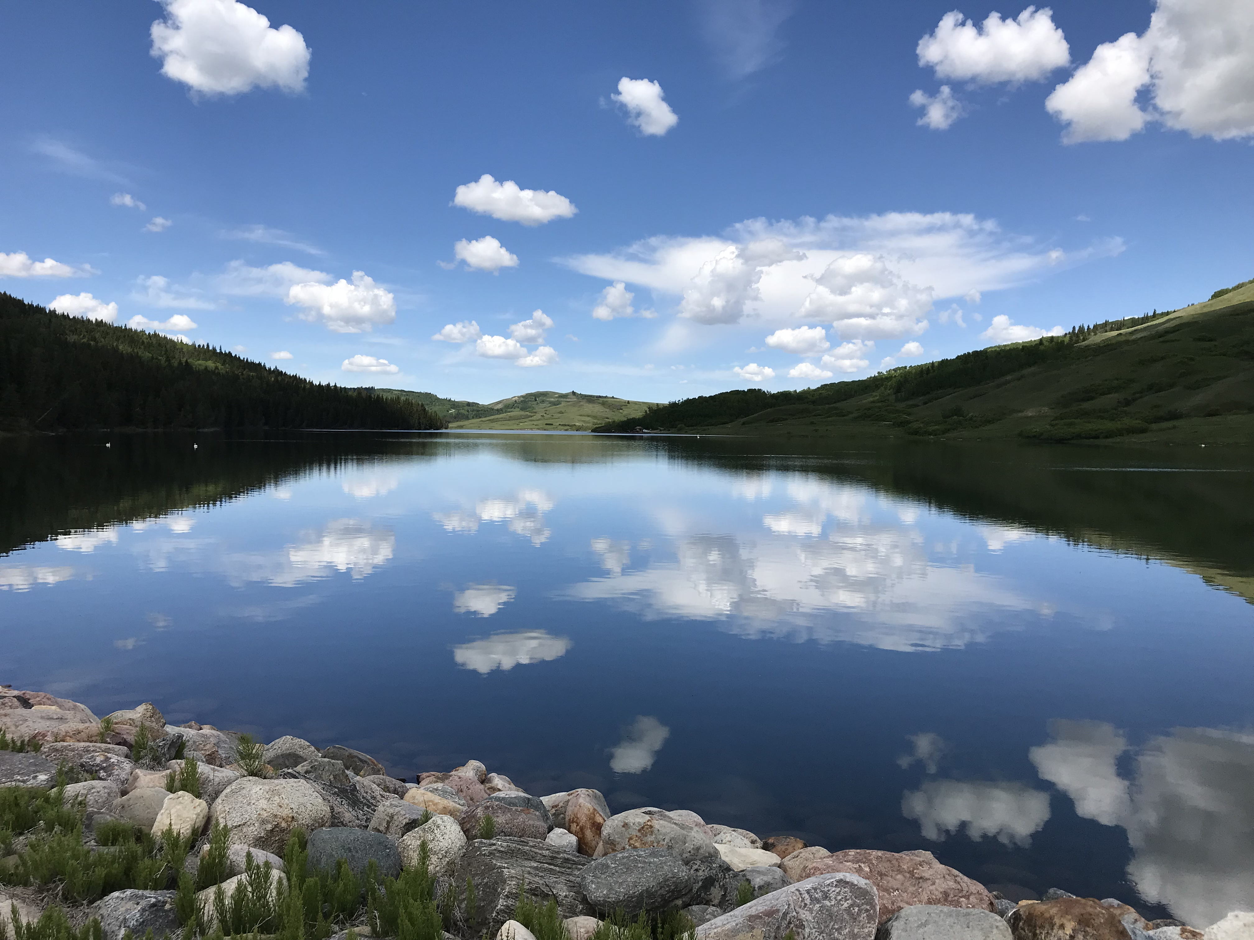 Natural beauty